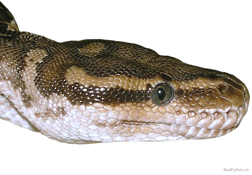 Lateral view of the head of an adult Angolan Dwarf Python (Python anchietae). This specimen lives in captivity. This picture is a donation of Markus Borer